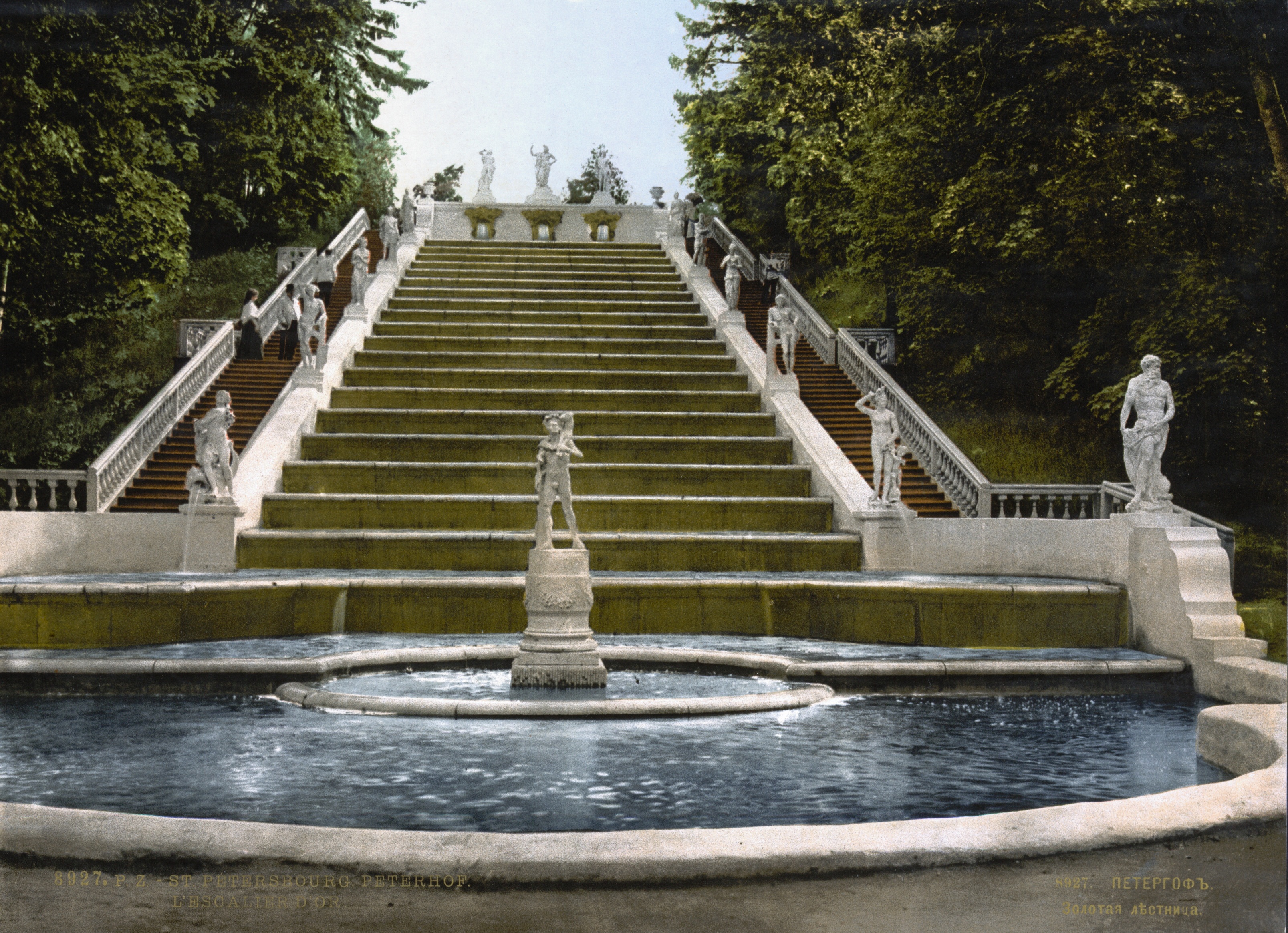 "Golden stair" cascade in Peterhof (St Petersburg, Russia). 19th-century photochrome print (1890—1900)